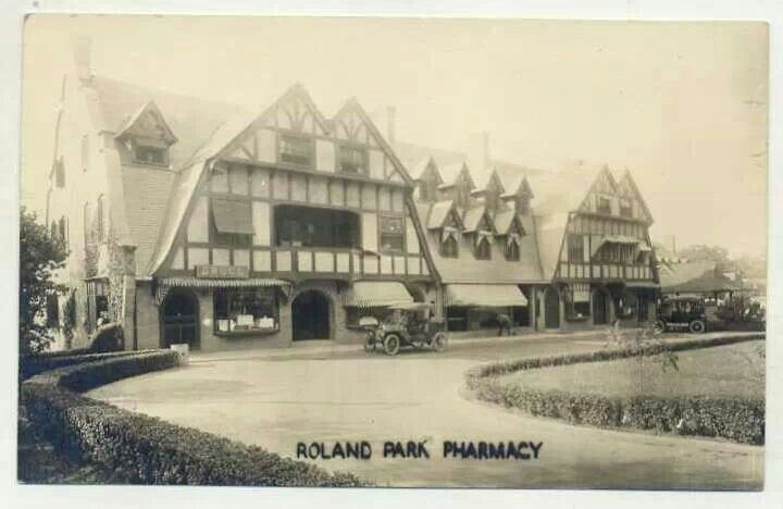 Roland Park Shopping Center, 1907-1910 (est)